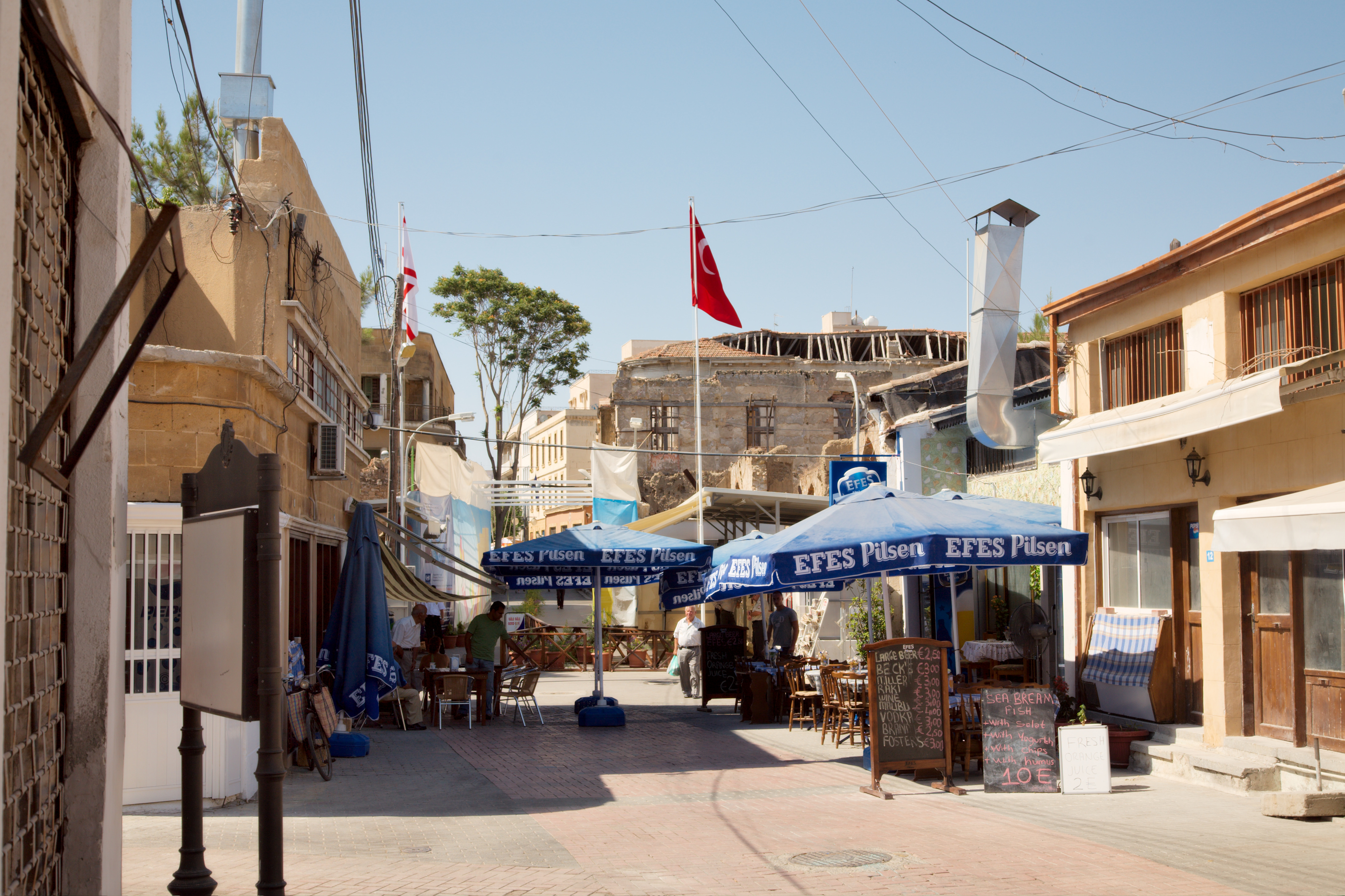 Ledra street view from north, in the background the border control